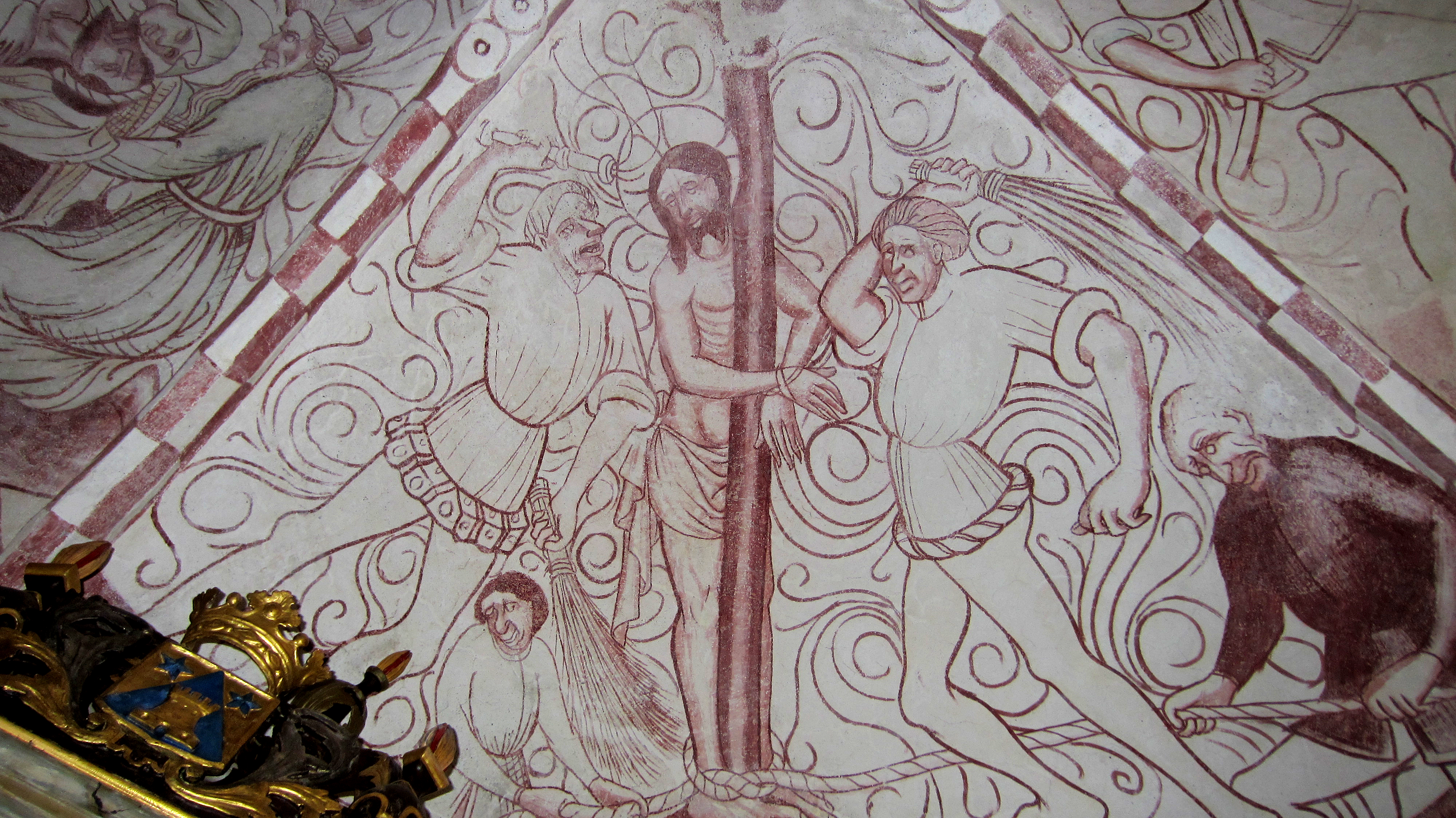 Wall paintings from about 1440 in Brönnestad church, Scania, Sweden.